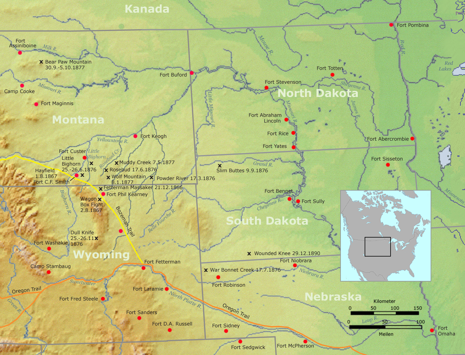 Battles and forts in the northern Great Plains between 1866 and 1891.